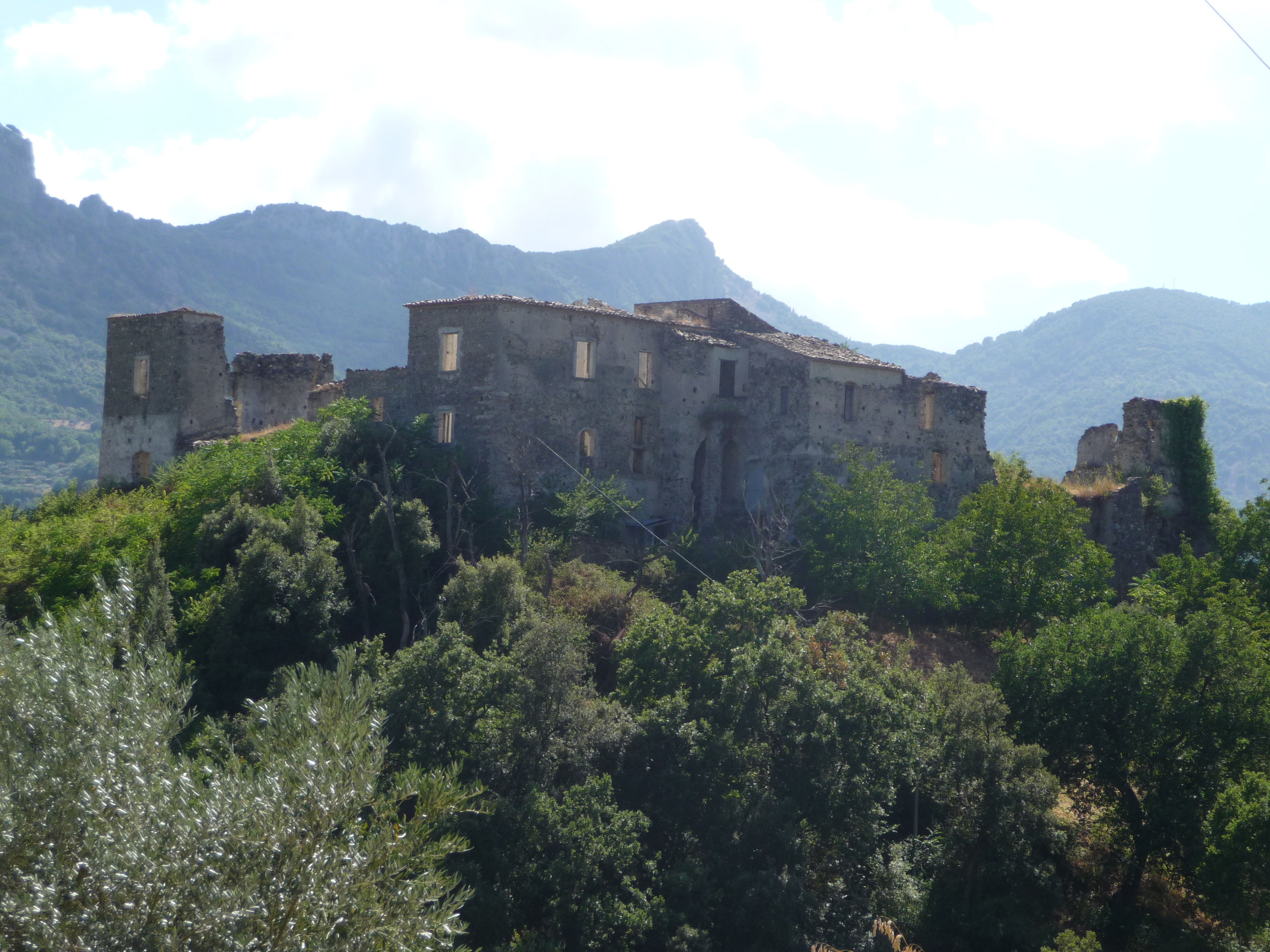 Grangia degli Apostoli - Bivongi (RC) - Italy